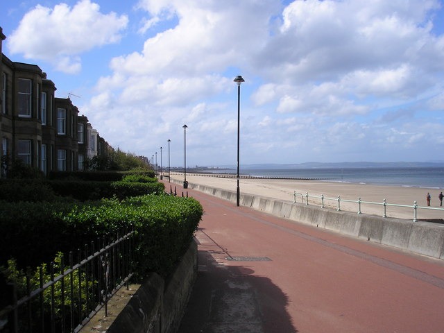 The Promenade at Portobello The view of the promenade at Portobello, showing the attractive houses on the left (with superb sea views) and the beach on the right.